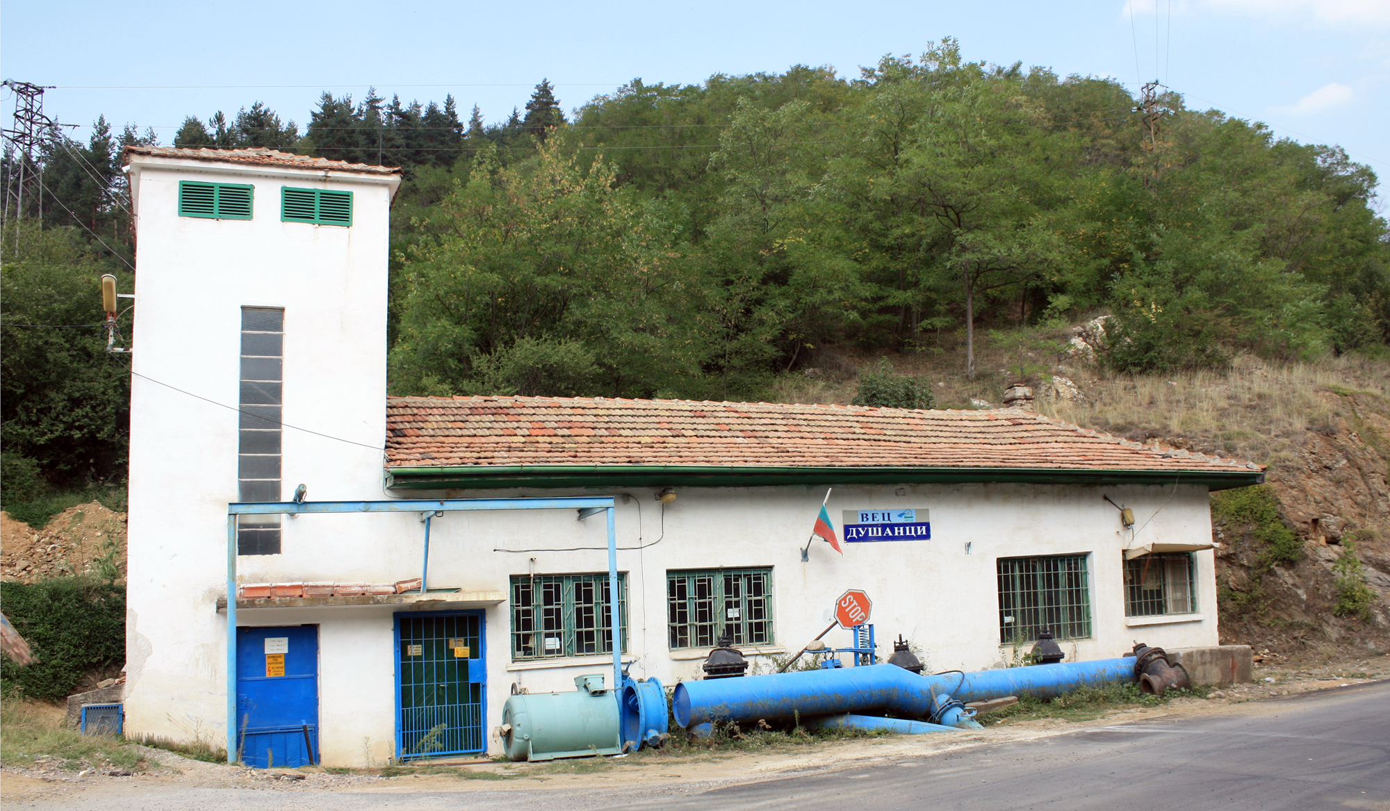 Dushantsi hydropower plant